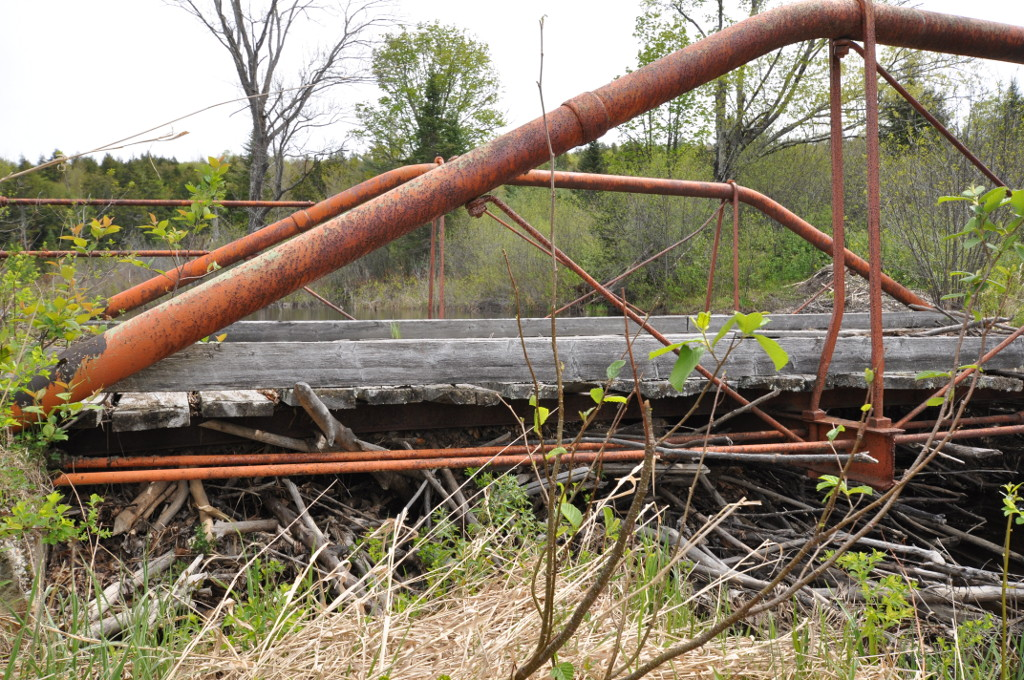 Coleman Bridge, Windsor, Massachusetts. A unique patented design, it is the only bridge of its type that is still at its original site (now beaver-infested).